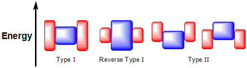 Classification of core-shell systems